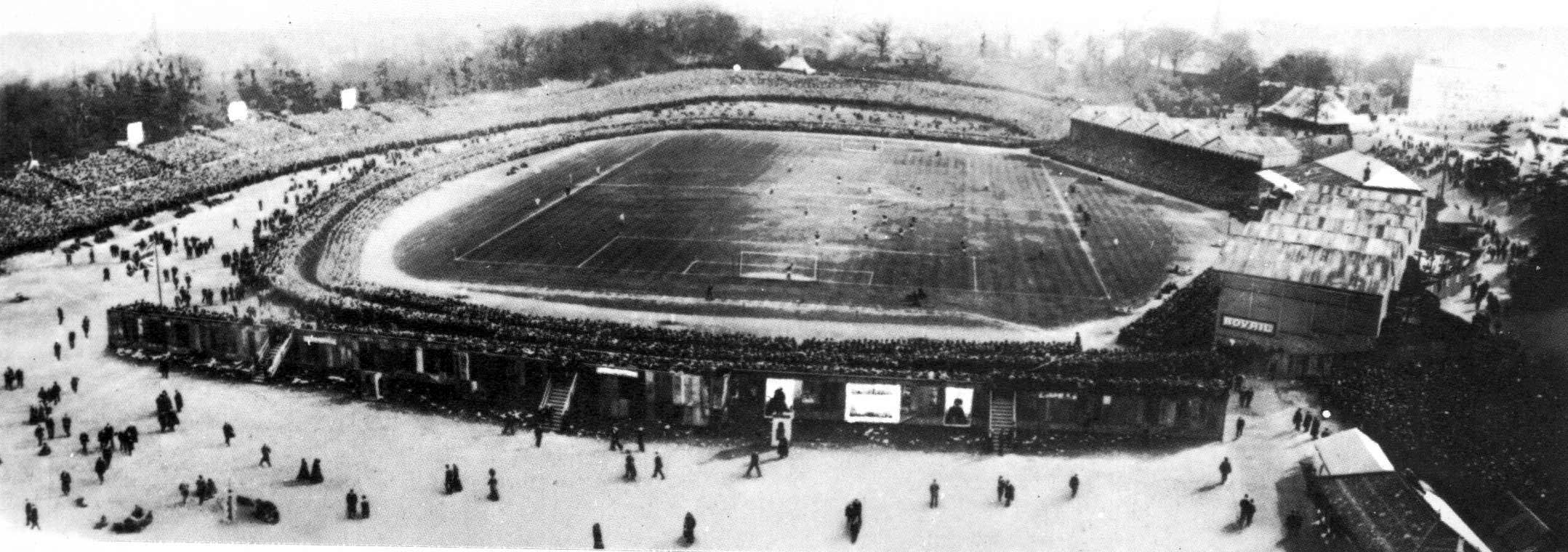 Panoramic shot of the Crystal Palace stadium during the 1905 FA Cup final.